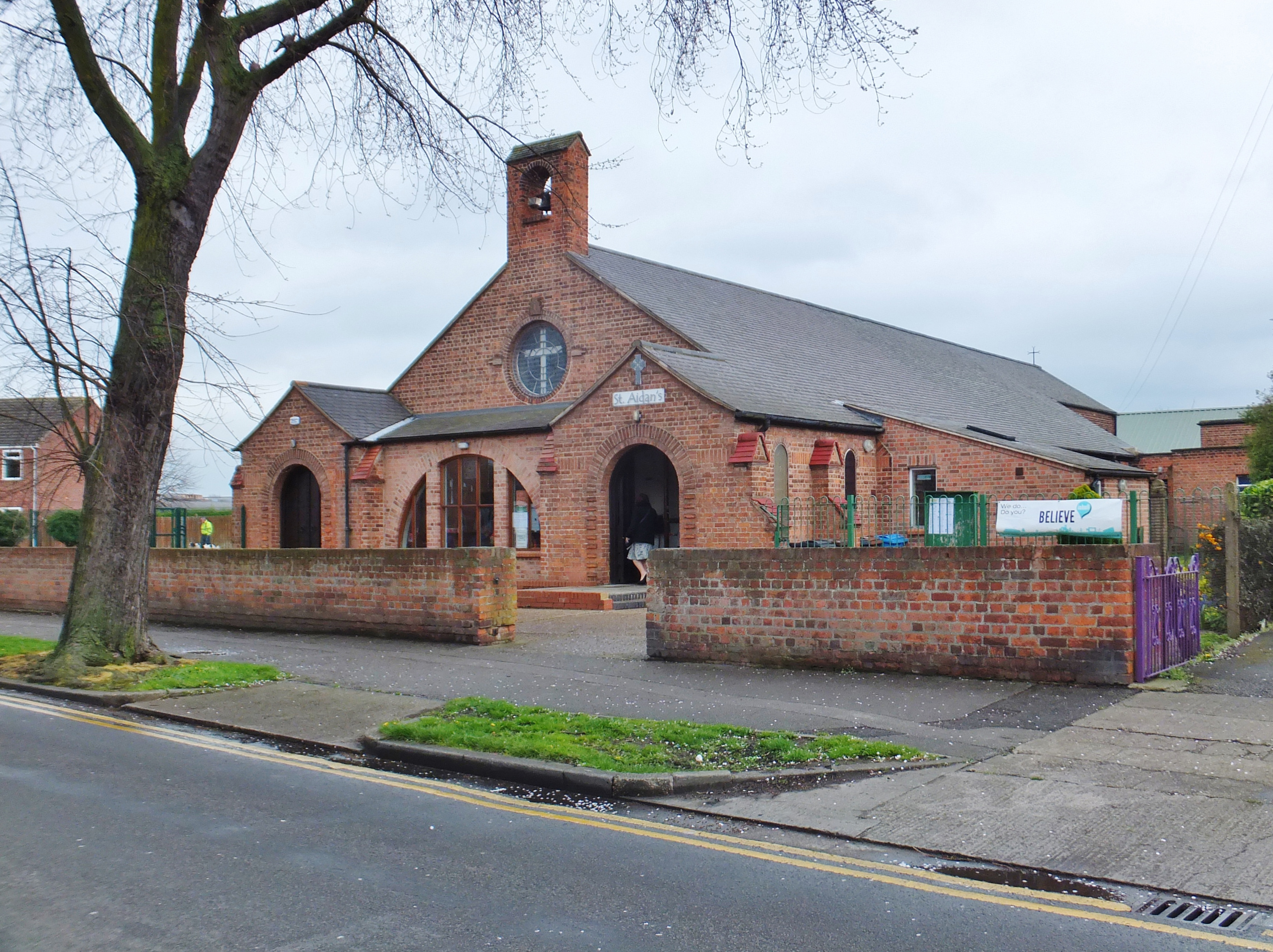 Southcoates Avenue, Kingston upon Hull